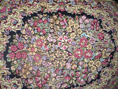 Photo of Ravar carpet